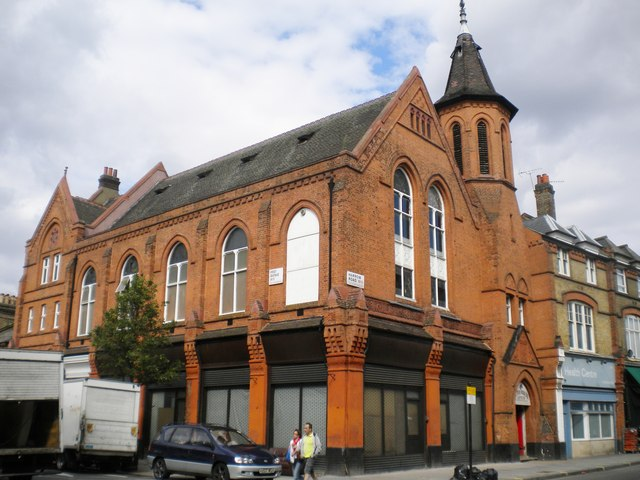 All Stars Boxing Club, Harrow Road W10